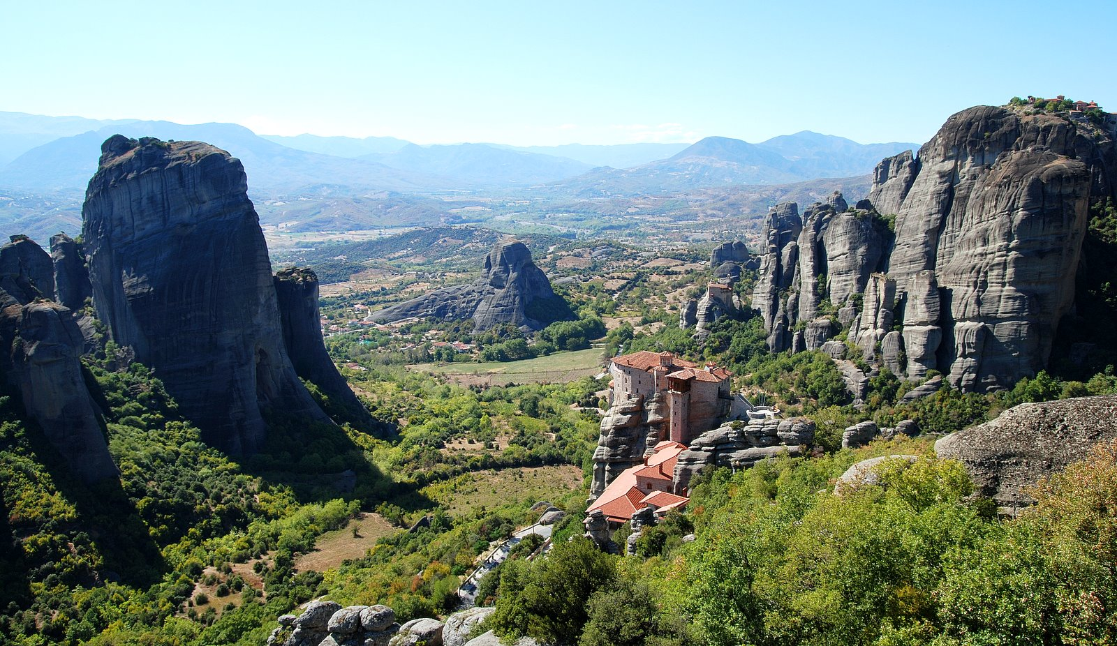 Rousanou monastery in the foreground, Agios Nikolaos behind it and part of the Grand Meteora can be seen in the upper right hand corner of the picture. The village of Kastraki is behind the rocks on the left.